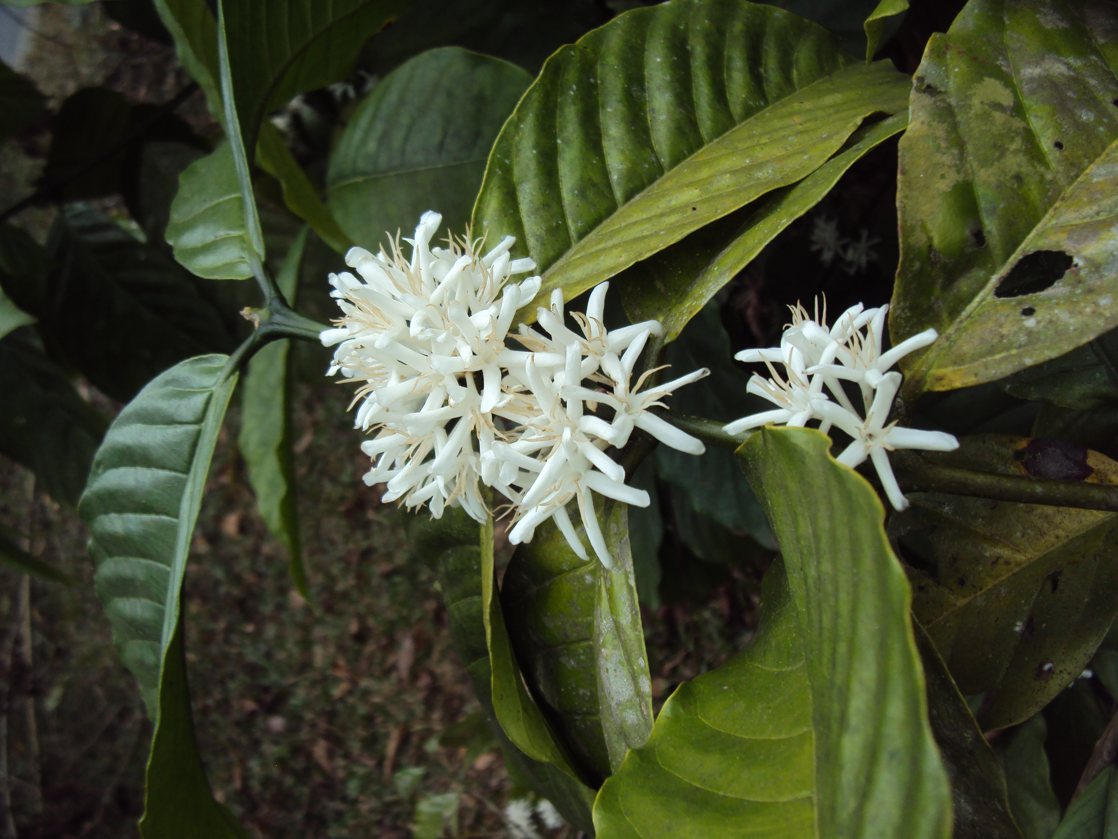 Coffea canephora